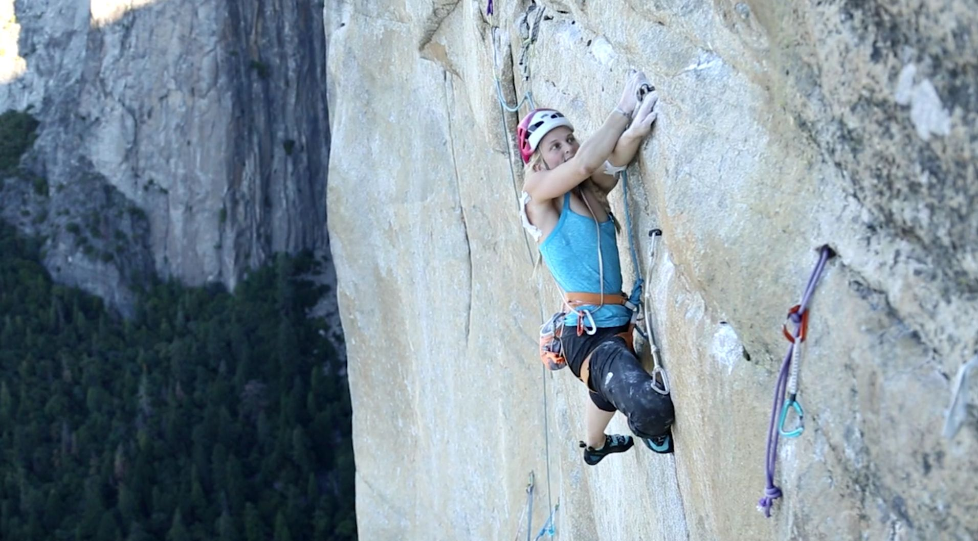 A frame from the video about Emily Harrington climbing Golden Gate (5.13 VI, 41 pitches) on El Capitan in May 2015.